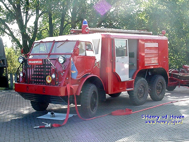 Firetruck DAF YA328, build somewhere between 1958 and 1962.